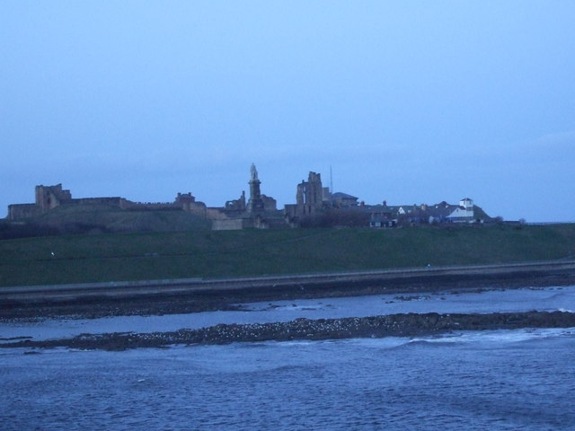 Black Middens Black Middens Rocks, just inside the pier at Tynemouth, seen at lowish tide. Many vessels have come to grief here. Behind and above is the monument to local lad Vice-Admiral Lord Cuthbert Collingwood, commander of the British fleet at the close of the battle of Trafalgar, and behind that is Tynemouth Priory and Castle.